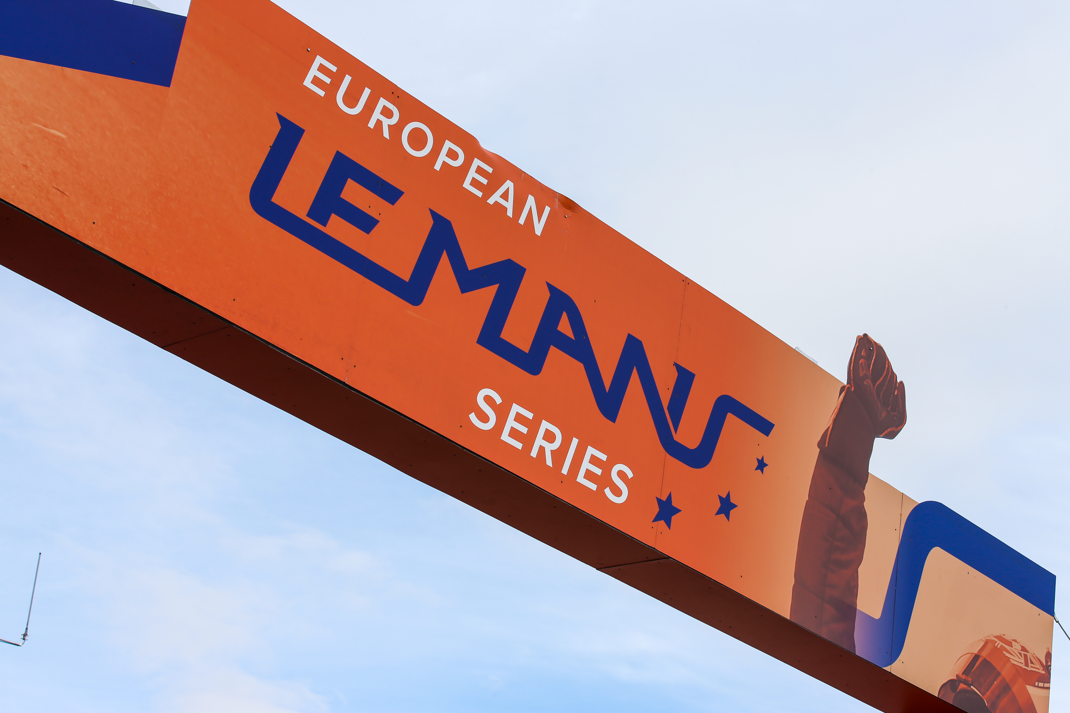 European Le Mans Series - 2019 4 Hours of Silverstone